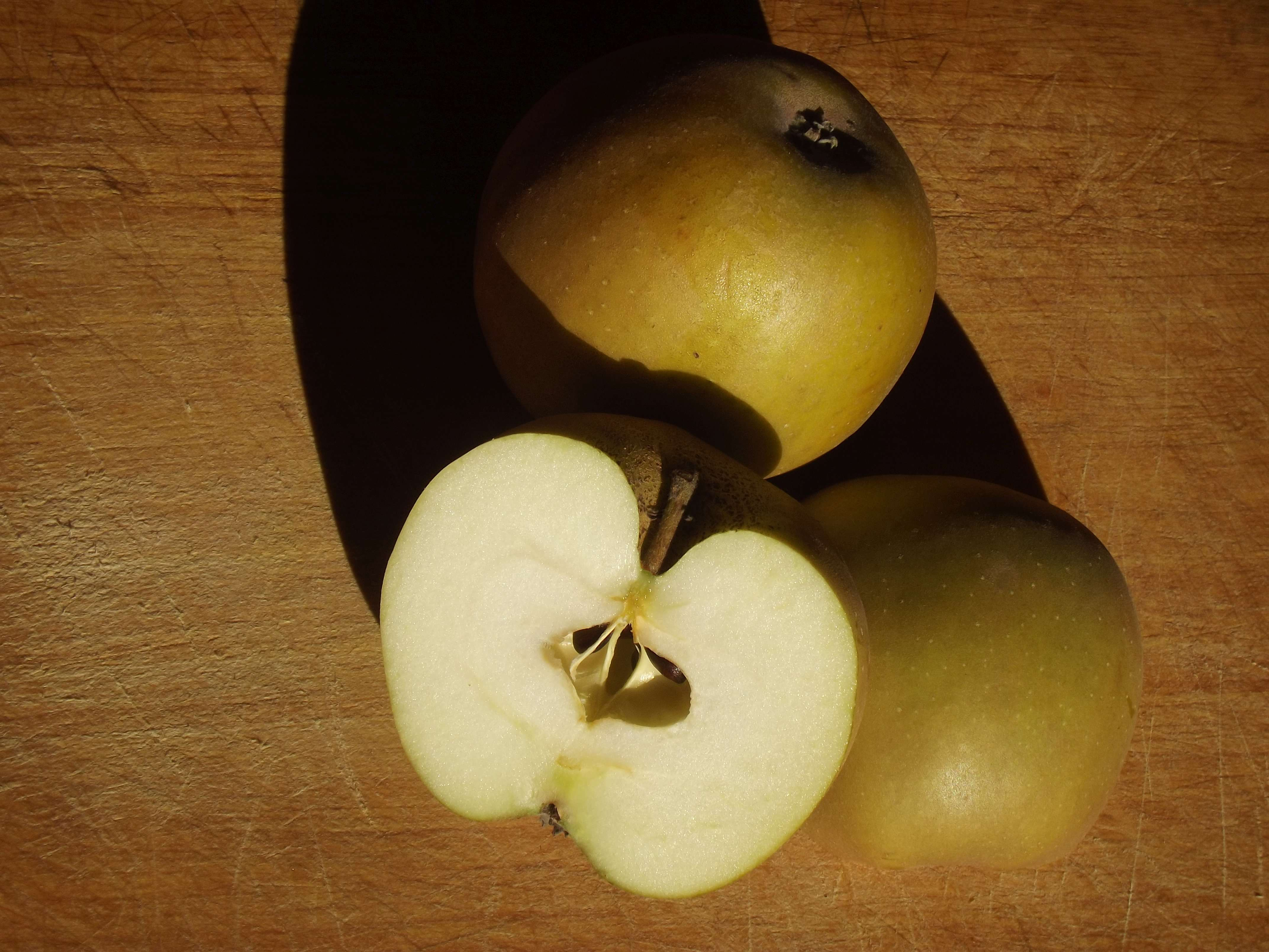 Renetta Grigia di Torriana (Prodotto Agroalimentare Tradizionale del Piemonte - a kind of apple traditionally growthin Piedmont)